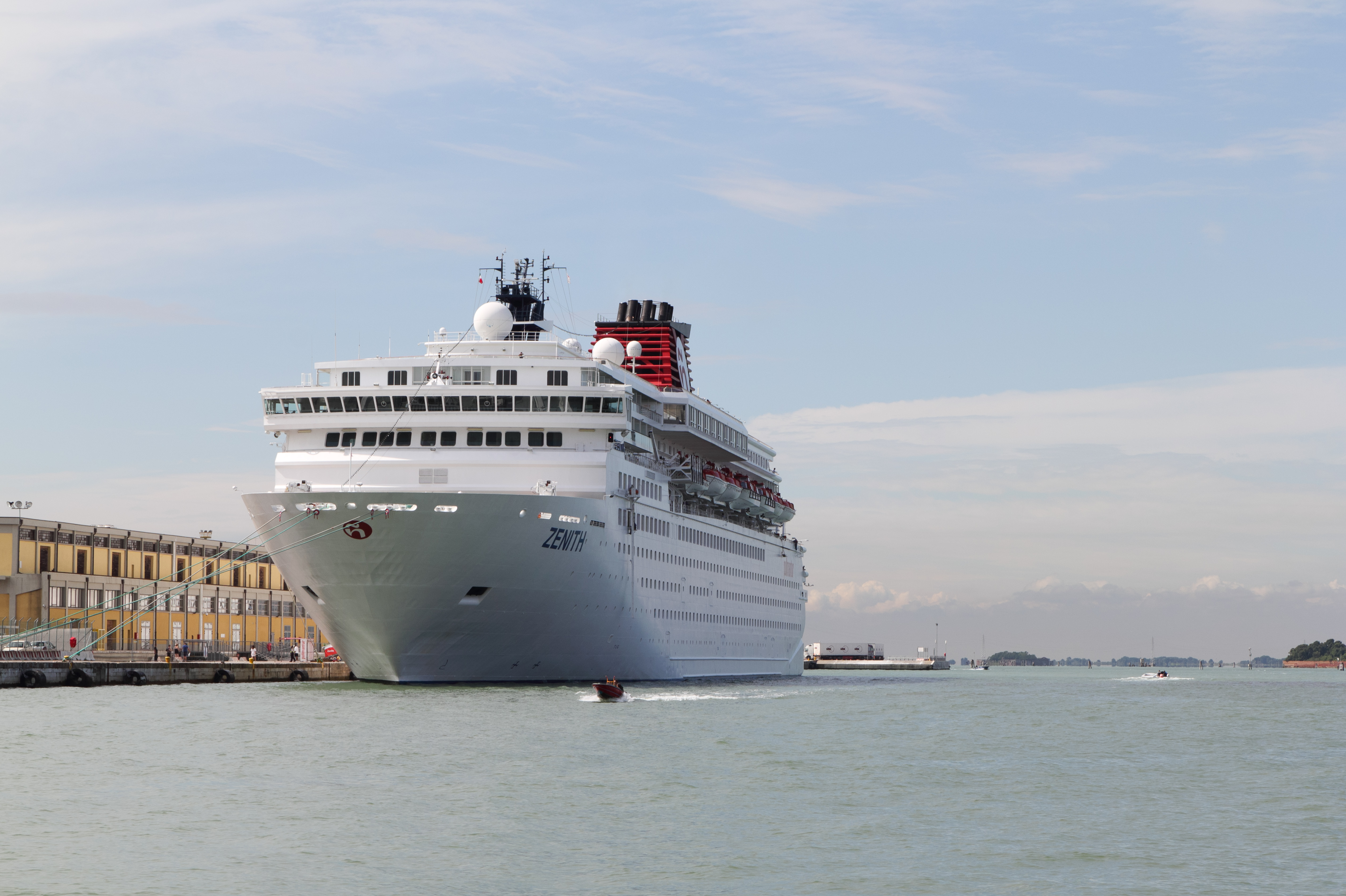 MV Zenith in Venice, Italy